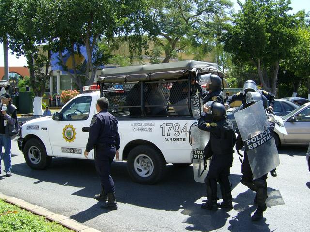 A group of riot-policemans from Yucatán State Police descends from a Ford unit to avoid possible damages against the Monumento a la Patria, in Paseo de Montejo, Mérida, Yucatán before the arrival of manifestants against the arrival of the President George W. Bush to the city, in march of 2007.